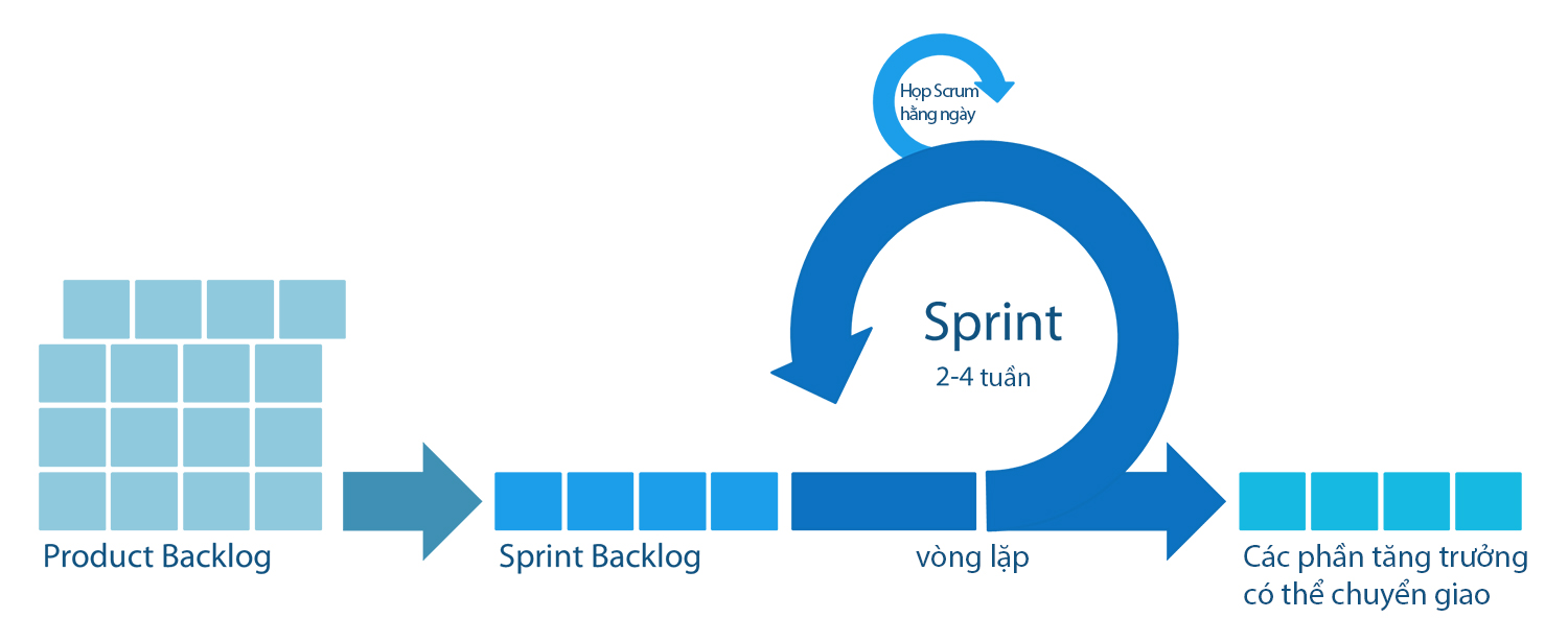 The Scrum project management method, text in Vietnamese.